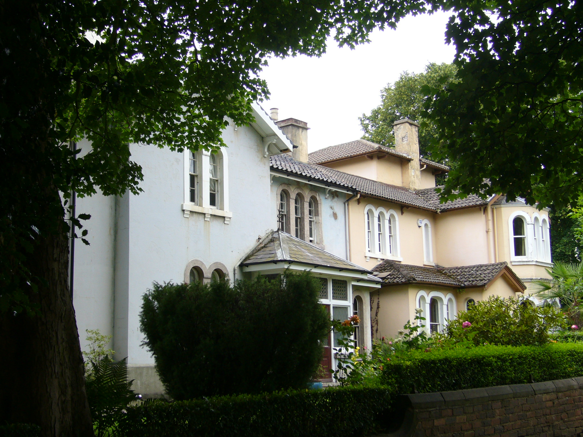 Nos. 3 & 4 The Villas at grid reference SJ 872 444 off London Road, Stoke-upon-Trent. More images from this visit.